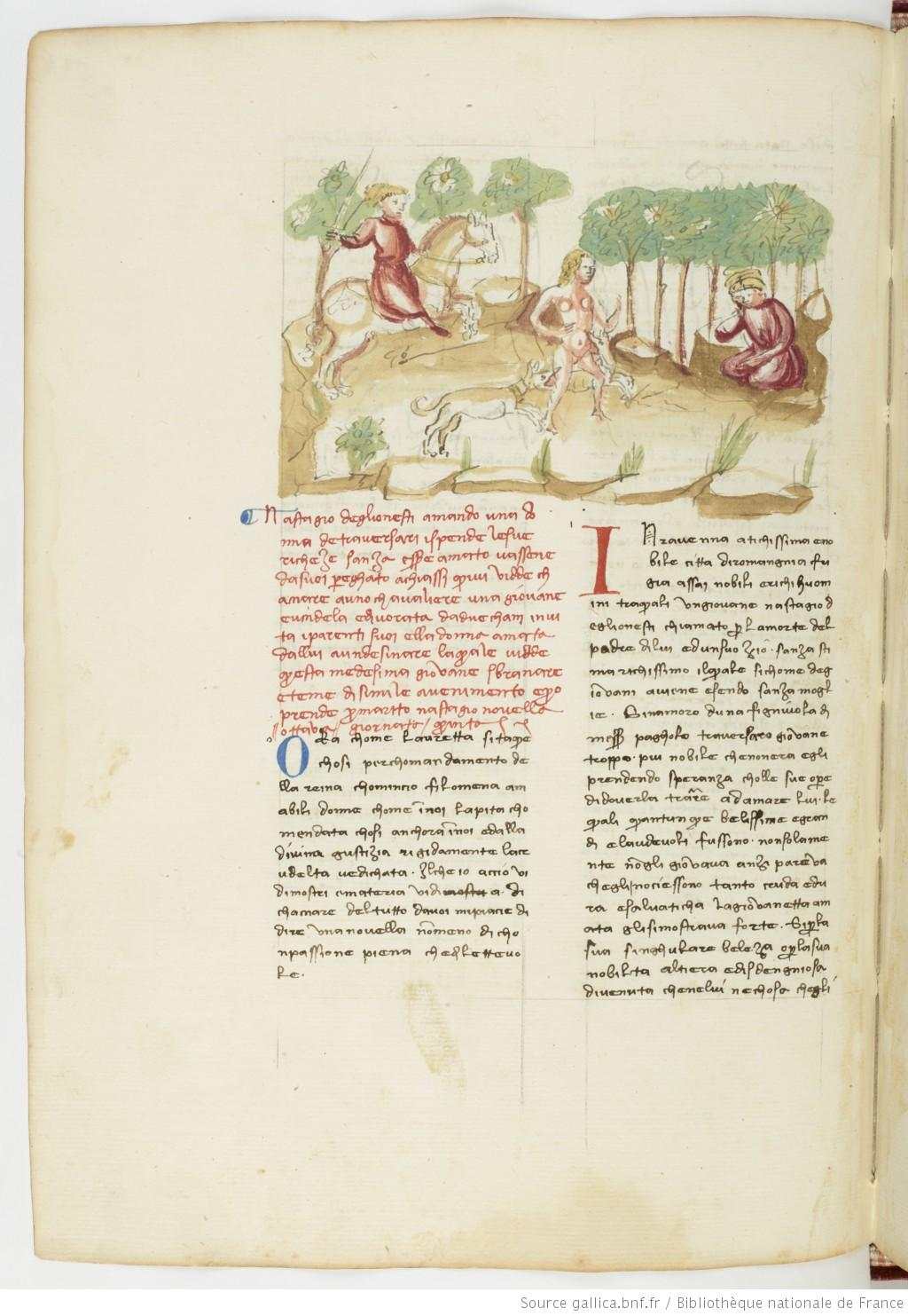 BNF MS Italien 63, fol. 186v: Boccaccio, Decameron: the story of Nastagio degli Onesti